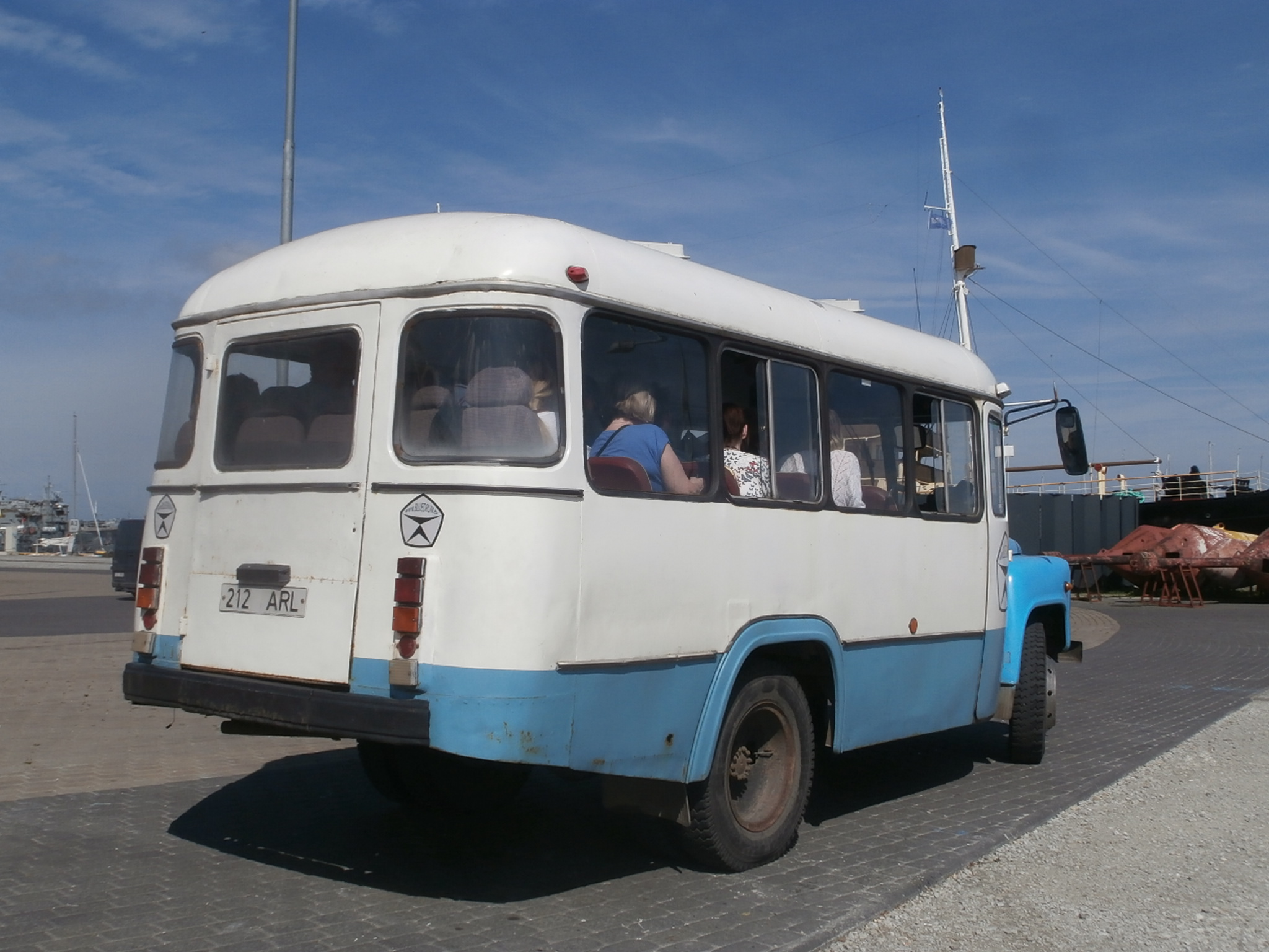 KAvZ-3270 bus licence plate 212 ARL in Lennusadam Tallinn 5 August 2016